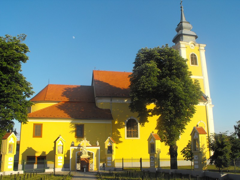 Roman vatholic church in Osli, Hungary